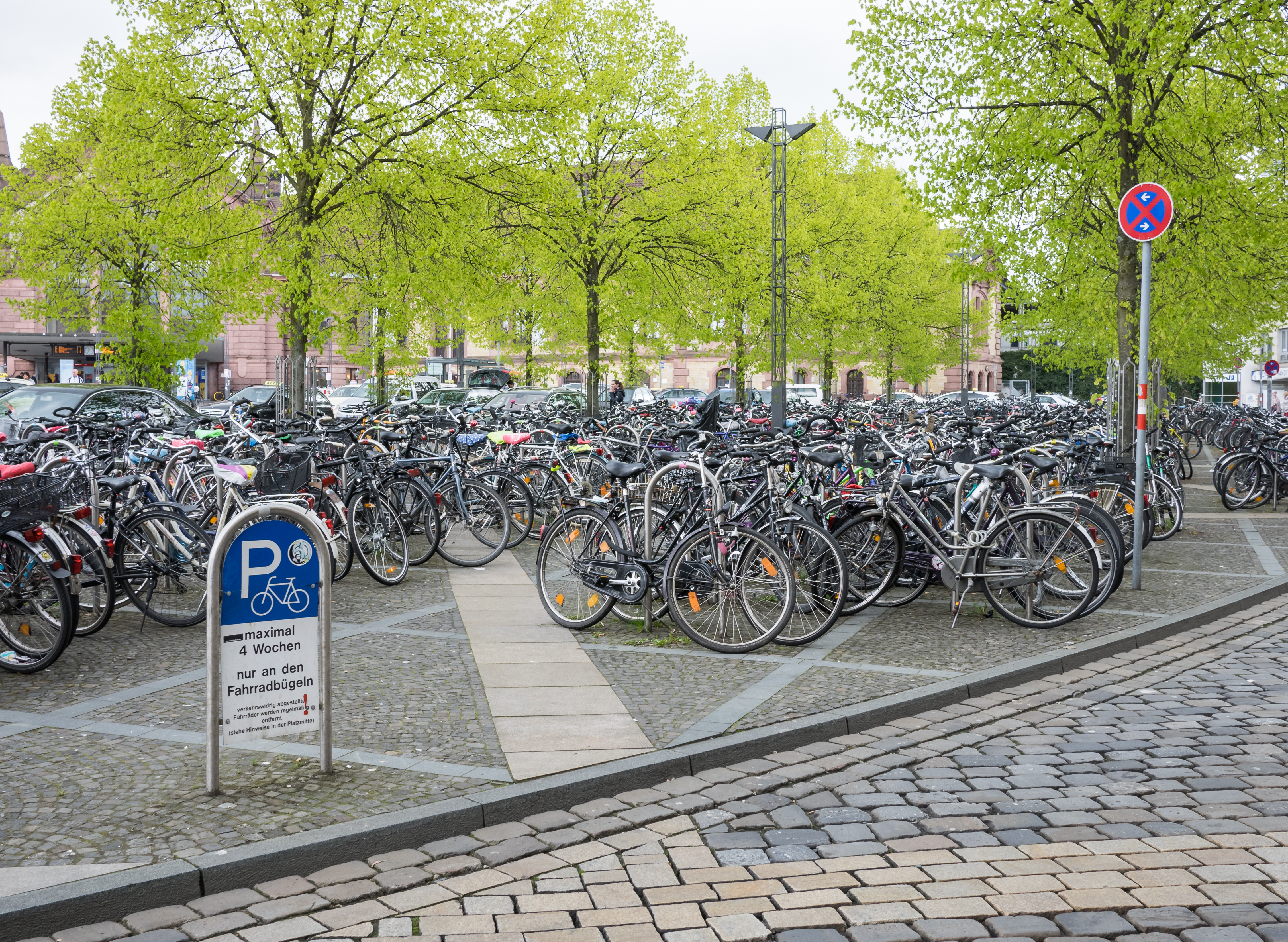 Bicycles at the central station of Osnabrück, Lower Saxony, Germany